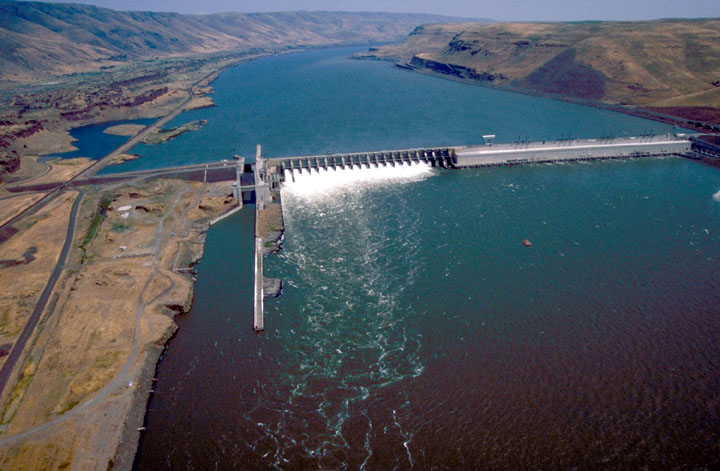 John Day Dam